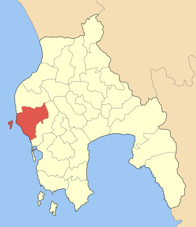 Locator map of Gargalianon municipality (Δήμος Γαργαλιάνων) at Messinia perfecture, Greece.